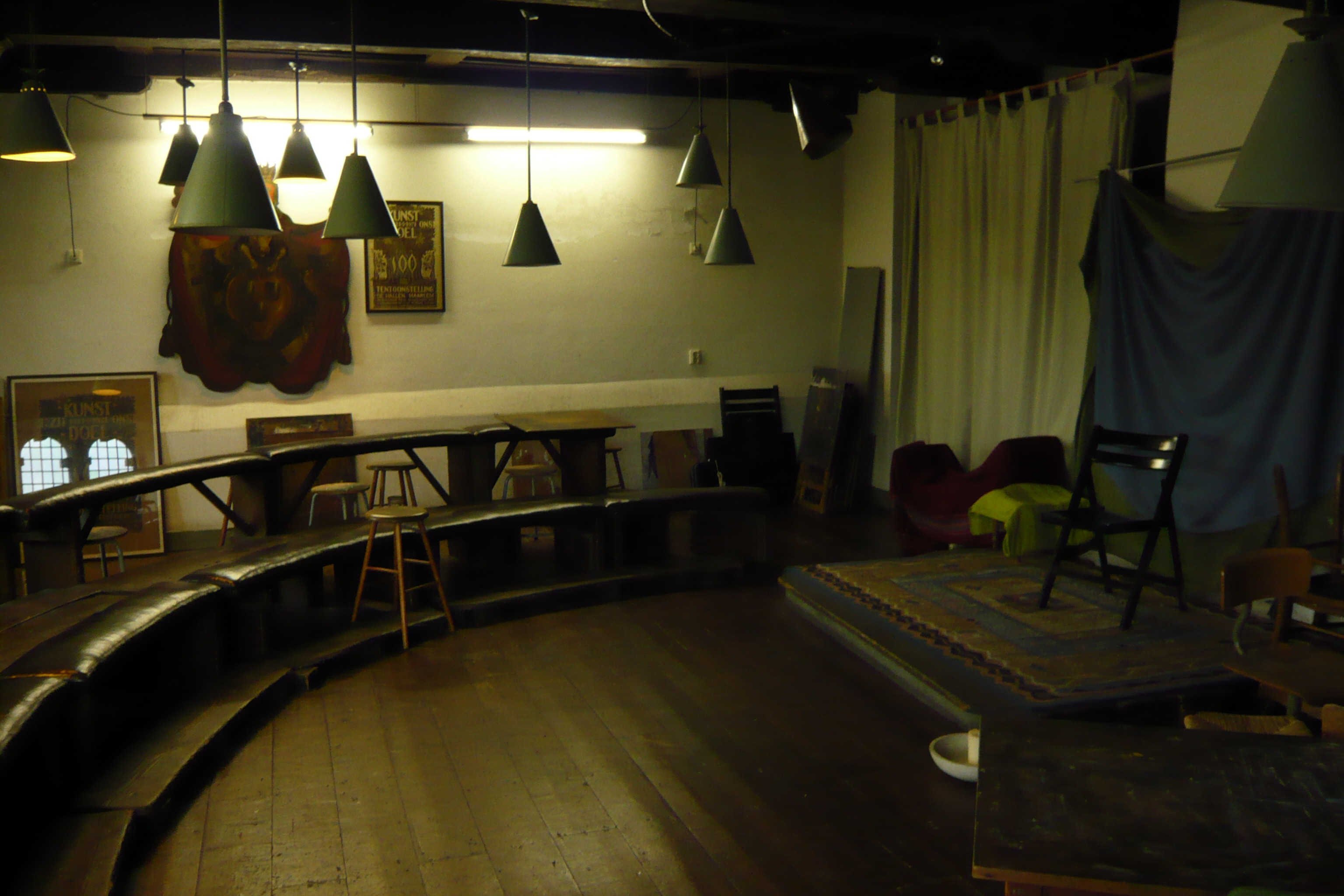 Interior of Kunst zij ons doel, Waag, Haarlem